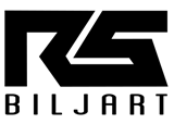 Logo of Raymund Swertz Billiards Company